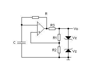 Astable multivibrator using OP